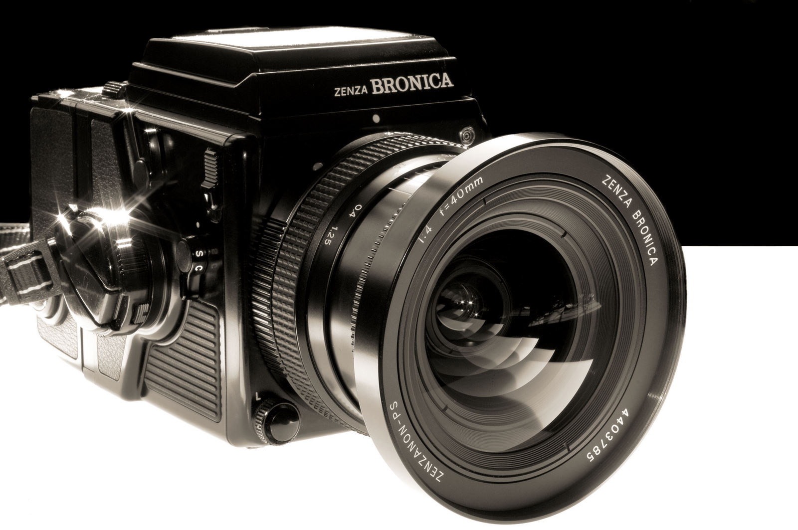 Camera Bronica medium format